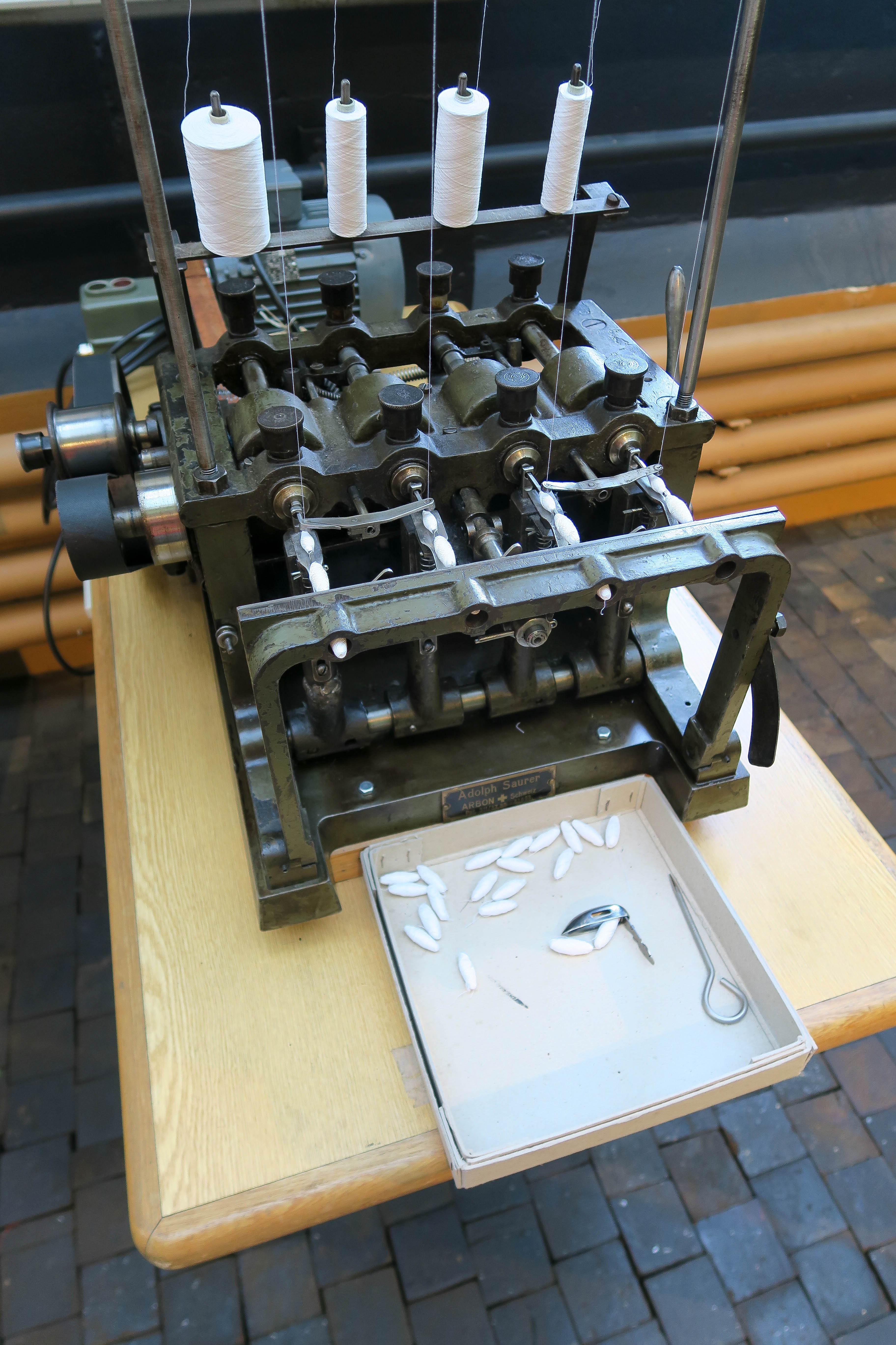 This early 20th century machine winds schiffli embroidery bobbin thread, or yarn, which was then used in a schiffli bobbin holder or shuttle. This is the backside thread which forms the lock stitch.